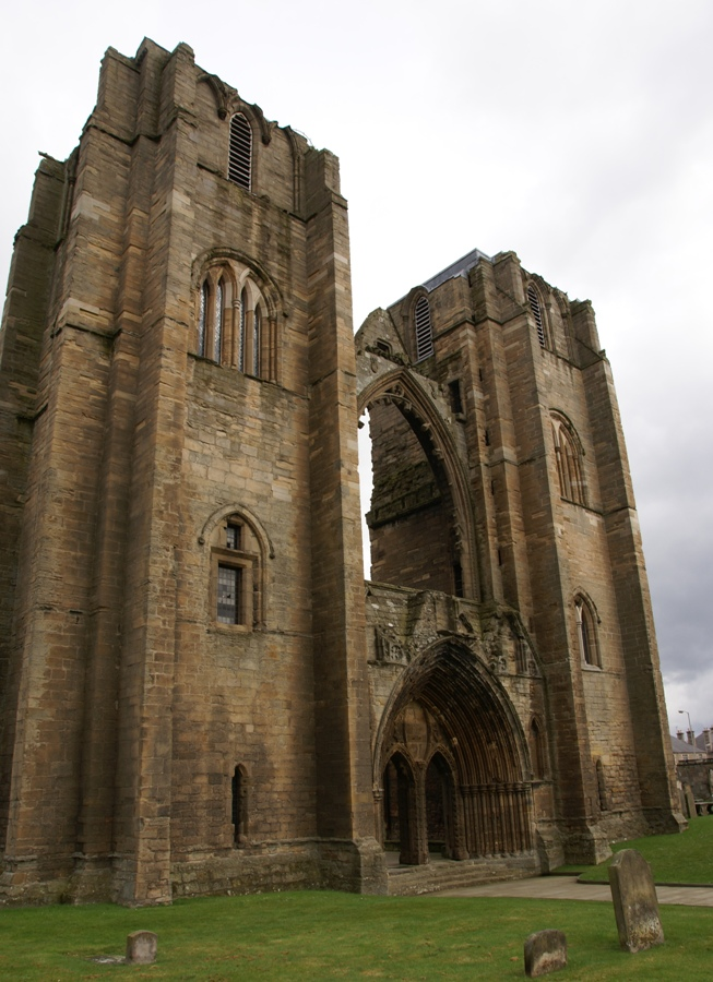 Elgin Cathedral (Scotland) - west front